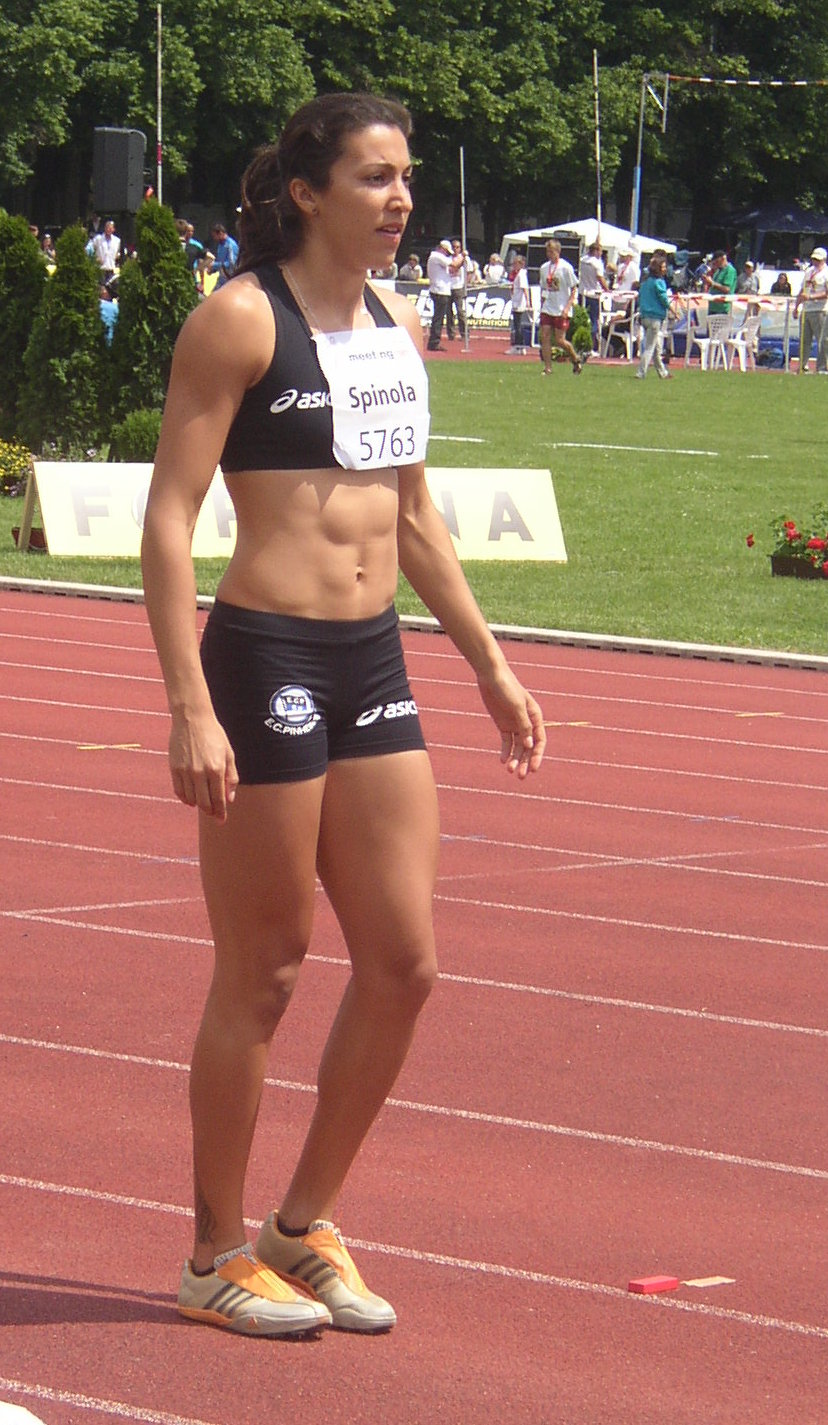 Athlete Vanessa Spinola of Brazil prepares for her attempt in long jump during women's heptathlon at 4th edition of the TNT - Fortuna Meeting (IAAF World Combined Events Challenge Meeting, Sletiště Stadium, Kladno, Czech Republic, 16 June 2010, 13:06).